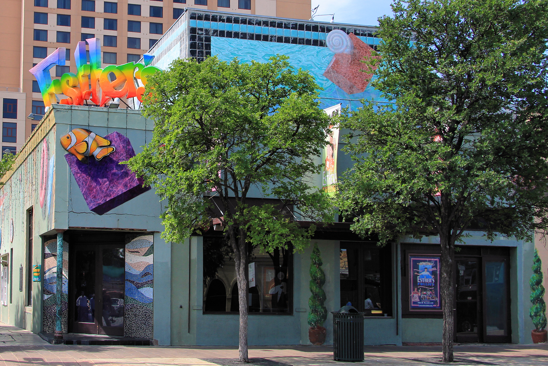 Esther's Follies Theatre, Austin, Texas, United States is a popular comedy club in the Sixth Street entertainment district.